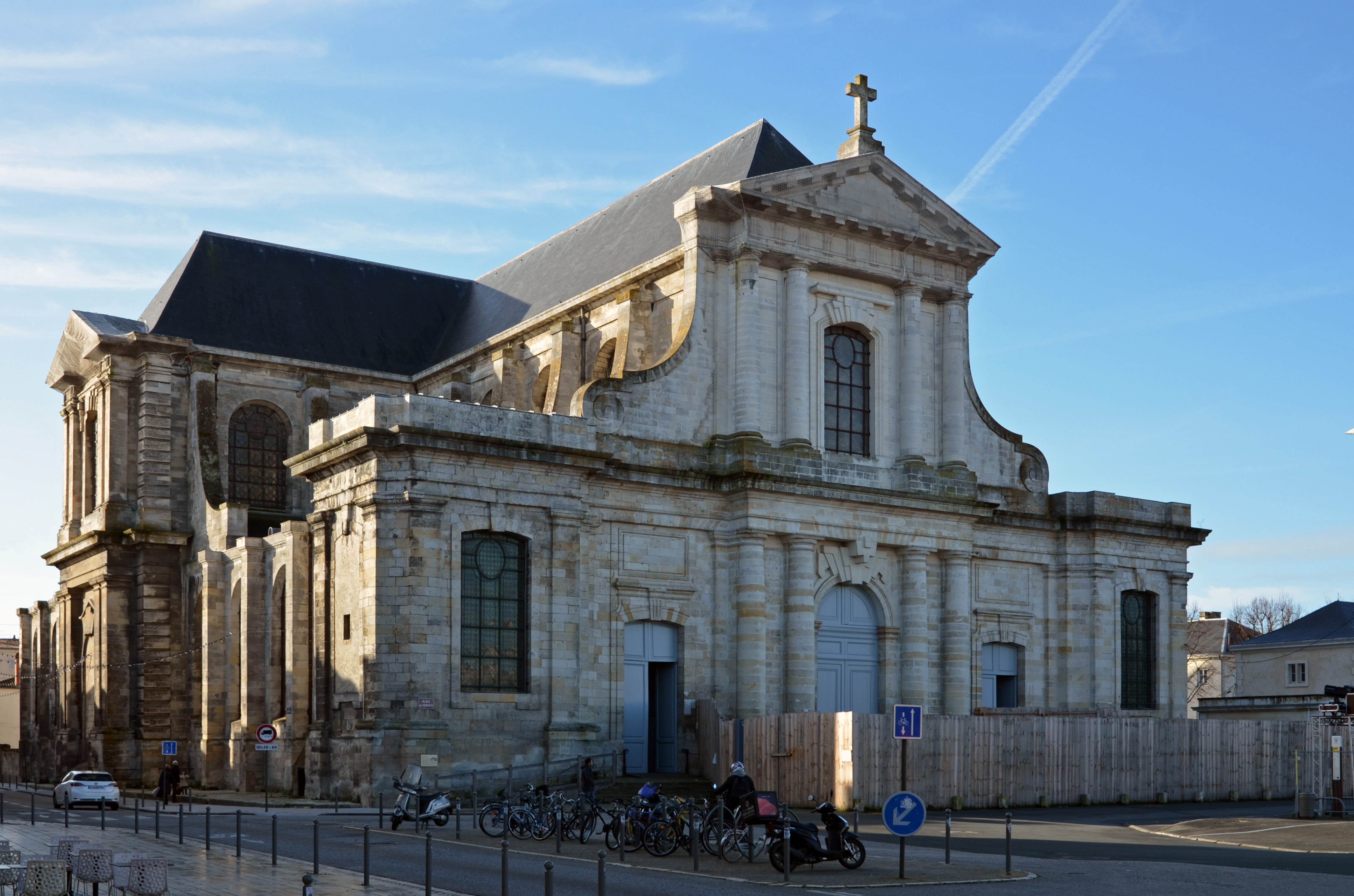 La Rochelle Cathedral - Charente-Maritime, France.